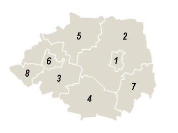 Outline Map with Gminy Identified for Bielsk County / Powiat Bielski